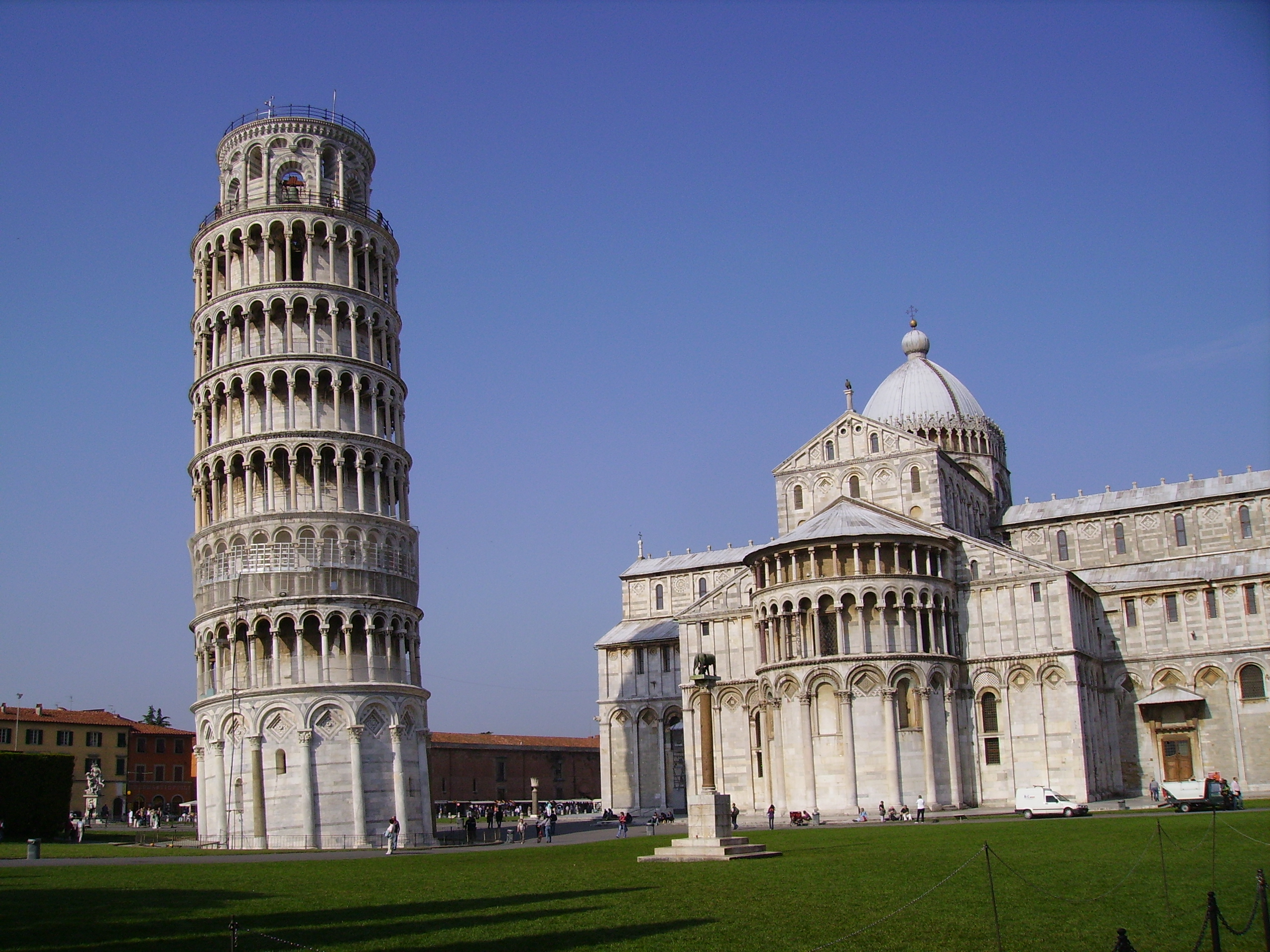 Leaning Tower - Pisa.